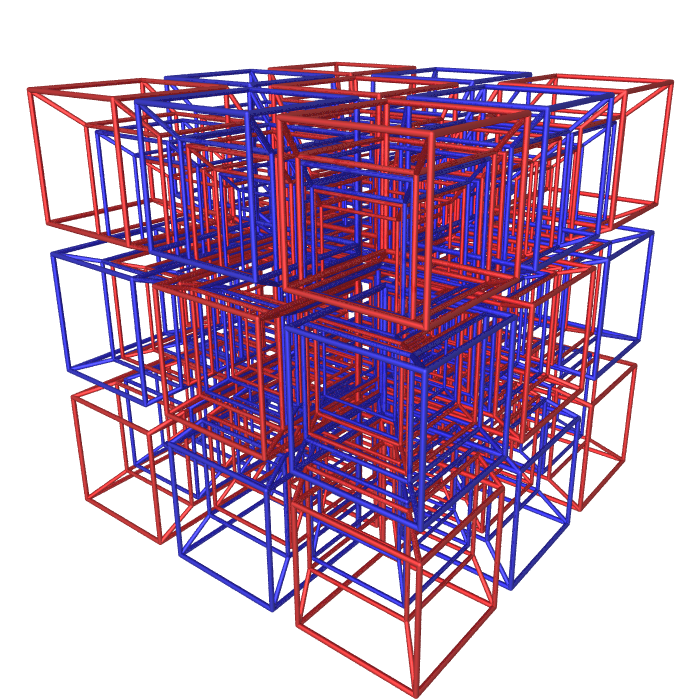 4d tessaractic tetra honey comb: a 3 x 3 x 3 x 3 red-blue chessboard